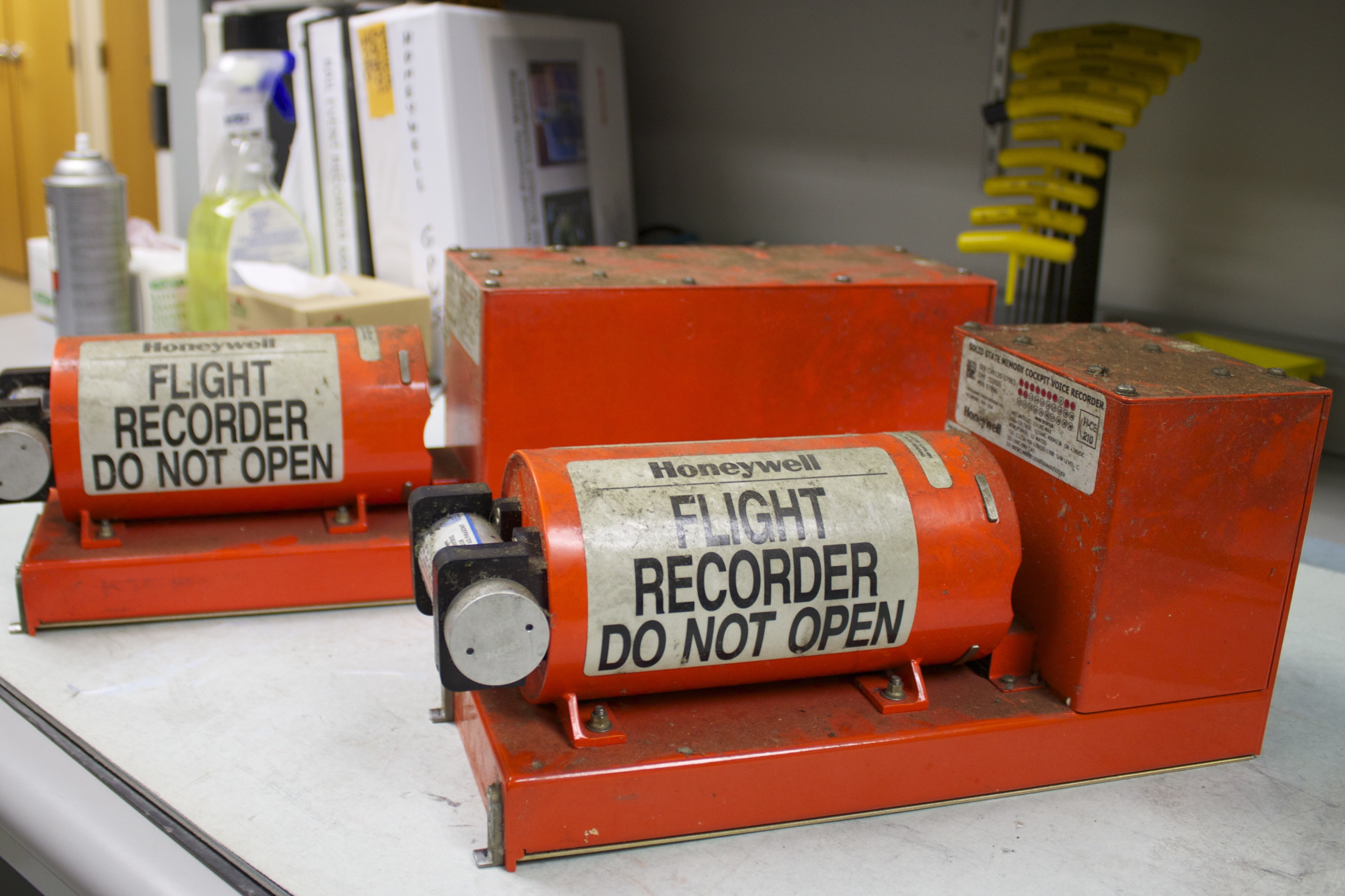 Asiana Airlines Flight 214's flight data recorder (left) and cockpit voice recorder (right) in NTSB's Washington lab.